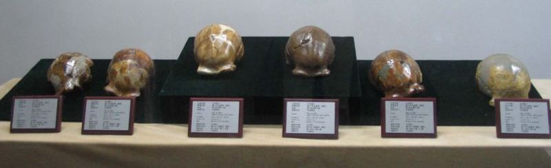 Cropped version of Zhoukoudian-2.jpg that has already been uploaded been uploaded to WkiCommons